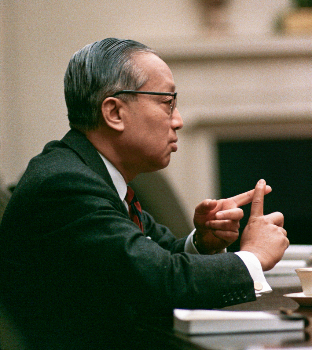 United Nations Secy Gen. U Thant meeting with Pres. Lyndon B. Johnson. Cabinet Room, White House, Washington, D.C.. United Nations Secretary General U Thant speaking and gesturing. Serial Number: C8692-2A